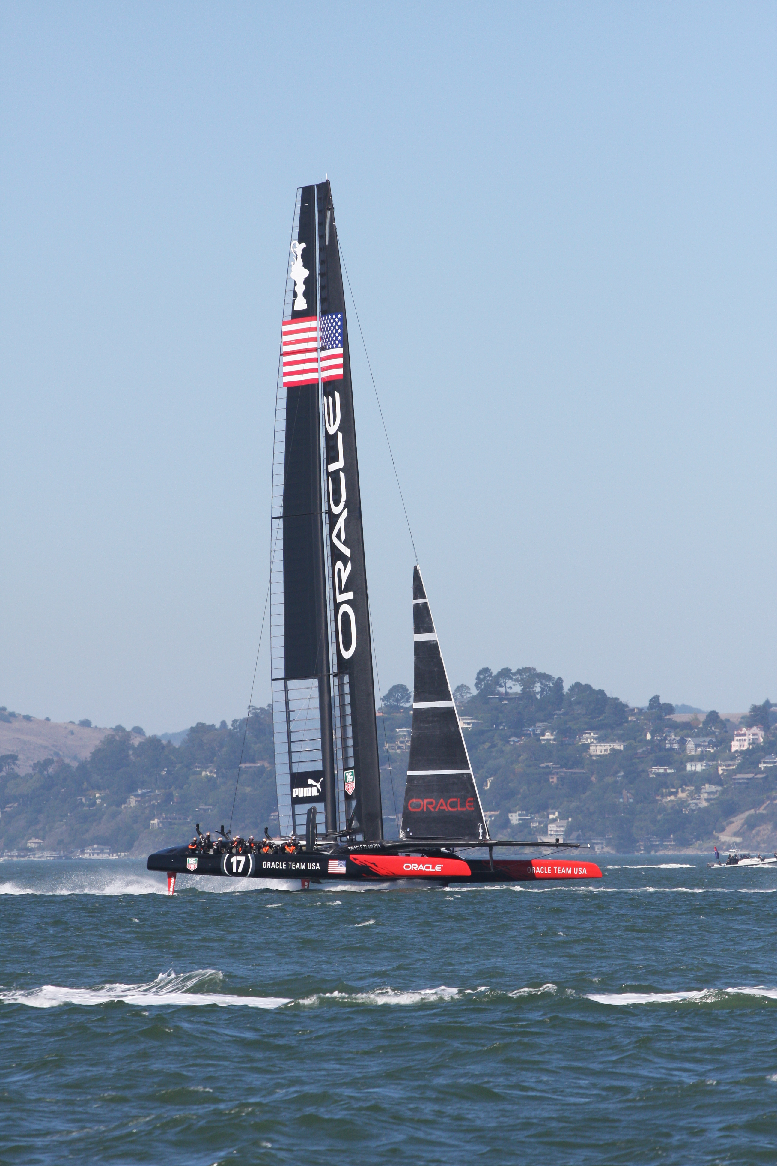 Oracle Racing chasing Team New Zealand on the first downwind leg of the in the second race in the 2013 America's Cup.